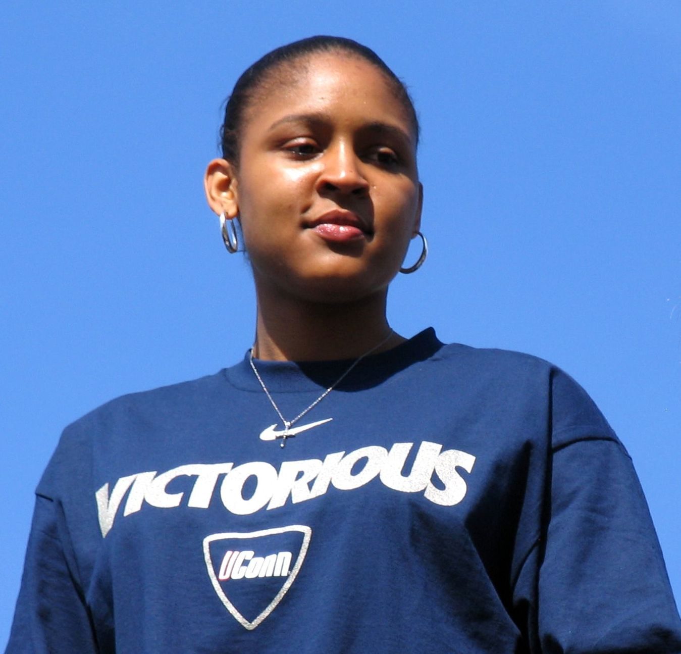 Photograph of Maya Moore take while on the bus in the parade in Hartford CT celebrating the Championship.